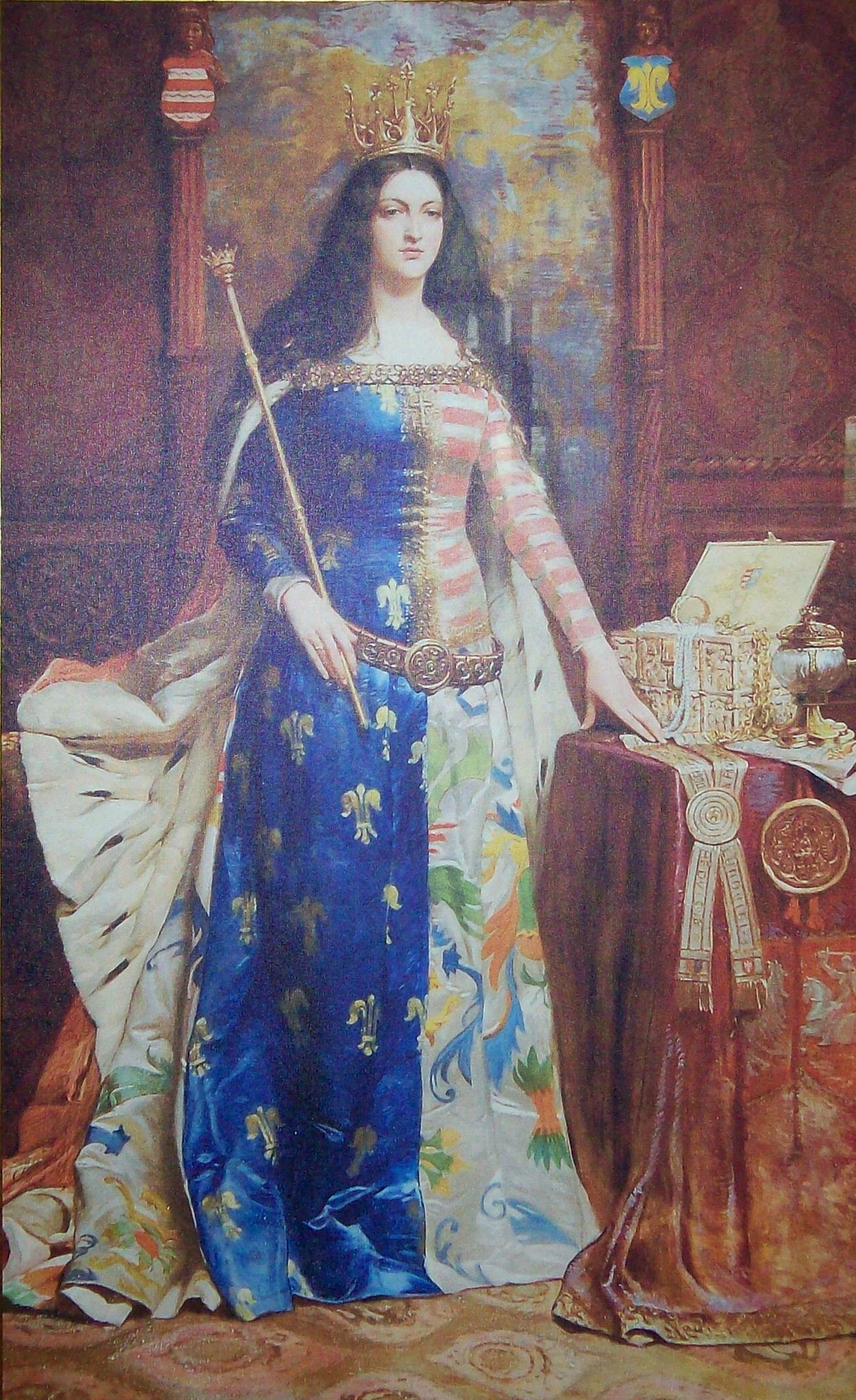 Portrait of Queen Jadwiga of Poland